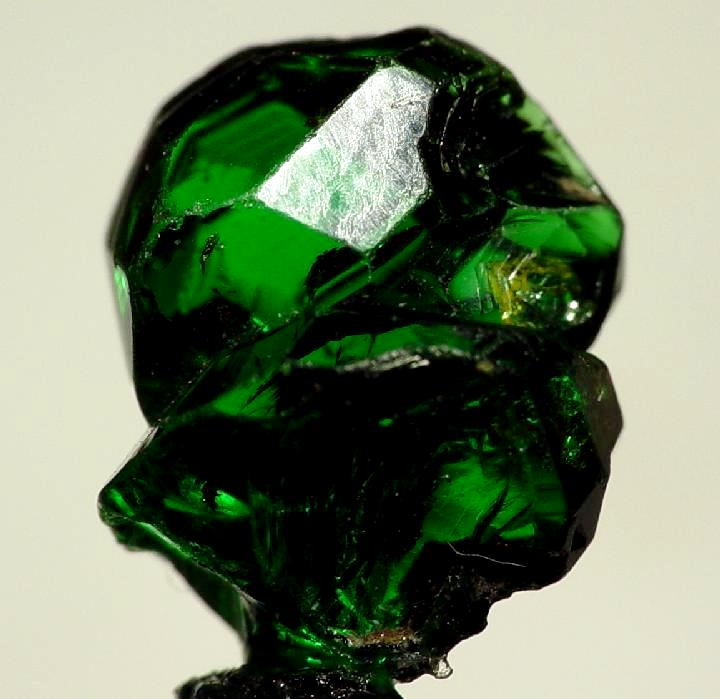 Grossular Locality: Lindi, Tsavo Plains, Tanzania Size: thumbnail, .9 x .7 x .4 cm Tsavorite Garnet Tsavorite is technically a rare form of Grossular Garnet and is not only rare as heck but desirable because of its unique beauty. This pair of intergrown crystals is absolutely stunning. The deep green, almost electric color, fabulous clarity, and superb luster make this specimen a true killer. This is a fantastic , if admittedly small thumbnail. However, the color intensity adds somewhat to the visual impact and the unusual sharpness and gemminess of the crystal transcend the size limitation. It MUST also have a sizable gem value if cut up... .9 x .7 x .4 cm